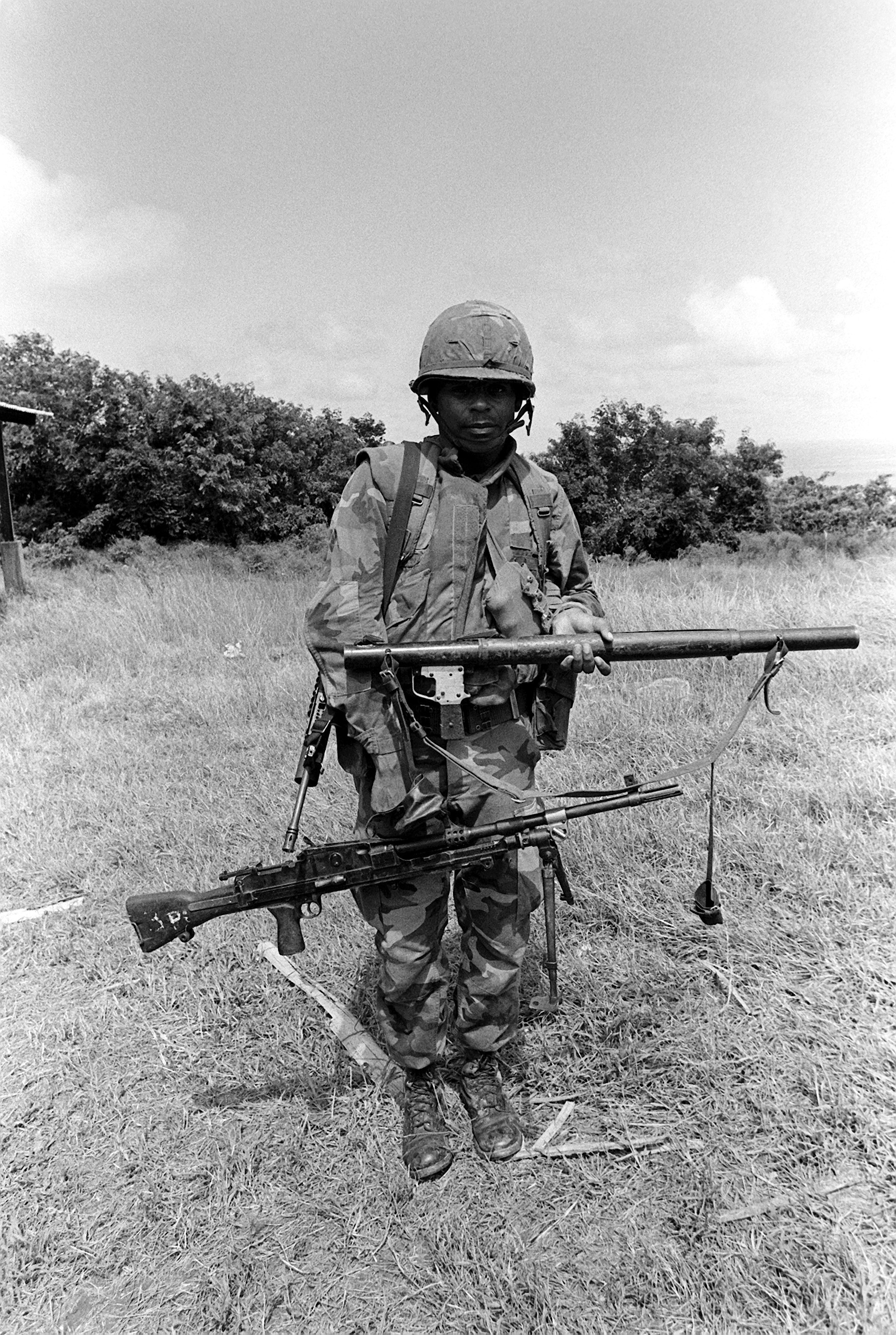 A Marine displays a seized Soviet RPG-2 rocket launcher and Bren light machine gun, after arriving with Battalion Landing Team A during Operation Urgent Fury. They were deployed from Grenada when informed that members of the Peoples Revolutionary Army were here on the island.